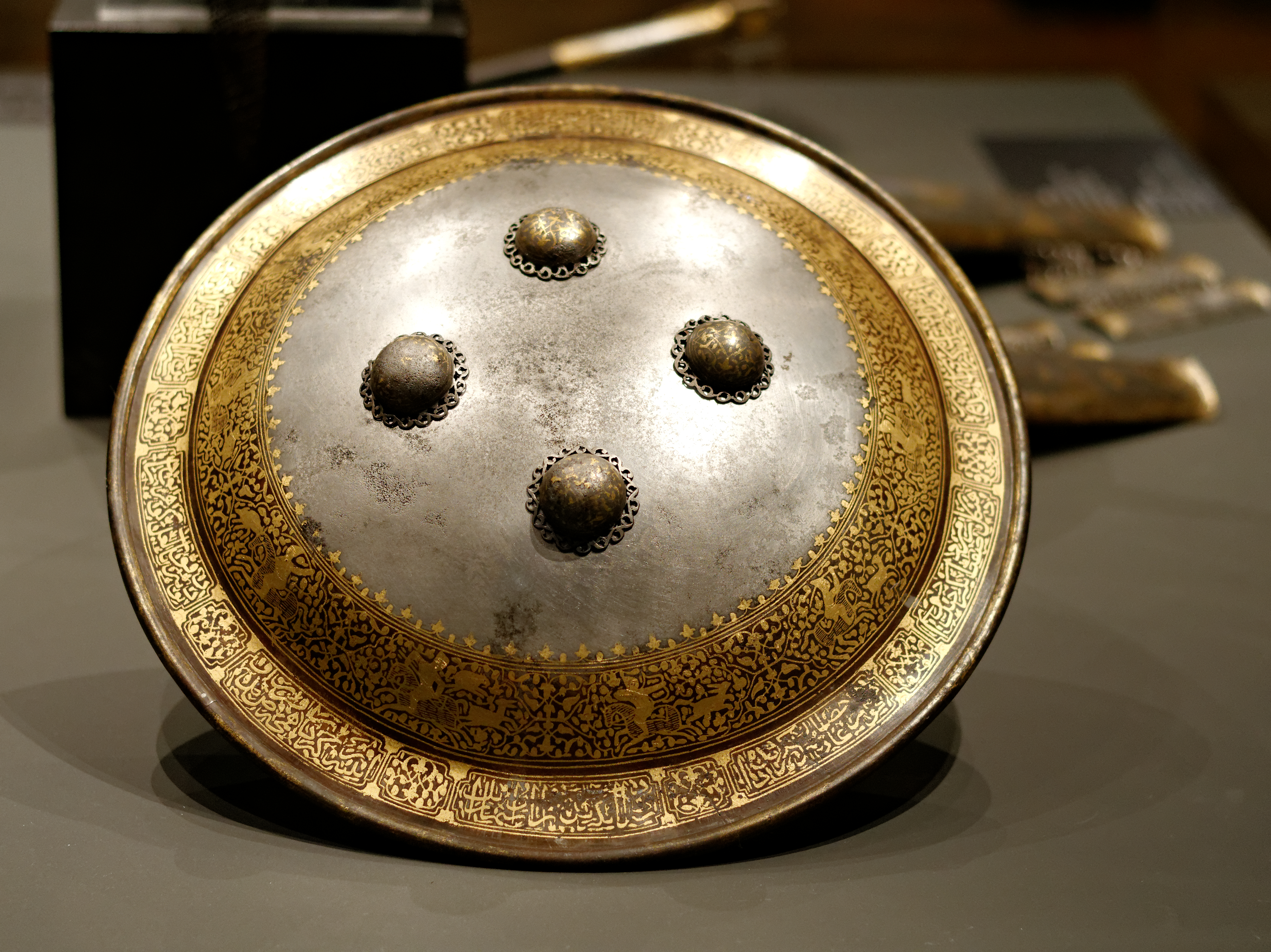 Shield. Iran, Qajar dynasty (1796-1925). Steel and gold inlay. Purchased from Mrs József Cziráky , 1961